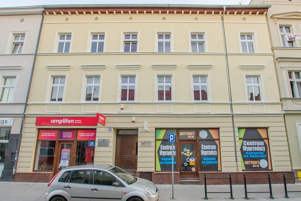 Main facade